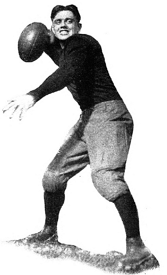 Photograph of Irwin Uteritz This work is in the public domain because it was published in the United States between 1923 and 1963 and although there may or may not have been a copyright notice, the copyright was not renewed. Unless its author has been dead for the required period, it is copyrighted in the countries or areas that do not apply the rule of the shorter term for US works, such as Canada (50 pma), Mainland China (50 pma, not Hong Kong or Macao), Germany (70 pma), Mexico (100 pma), Switzerland (70 pma), and other countries with individual treaties. See Commons:Hirtle chart for further explanation. This work is in the public domain because it was published in the United States between 1923 and 1977 and without a copyright notice. Unless its author has been dead for several years, it is copyrighted in jurisdictions that do not apply the rule of the shorter term for US works, such as Canada (50 p.m.a.), Mainland China (50 p.m.a., not Hong Kong or Macao), Germany (70 p.m.a.), Mexico (100 p.m.a.), Switzerland (70 p.m.a.), and other countries with individual treaties. See this page for further explanation.